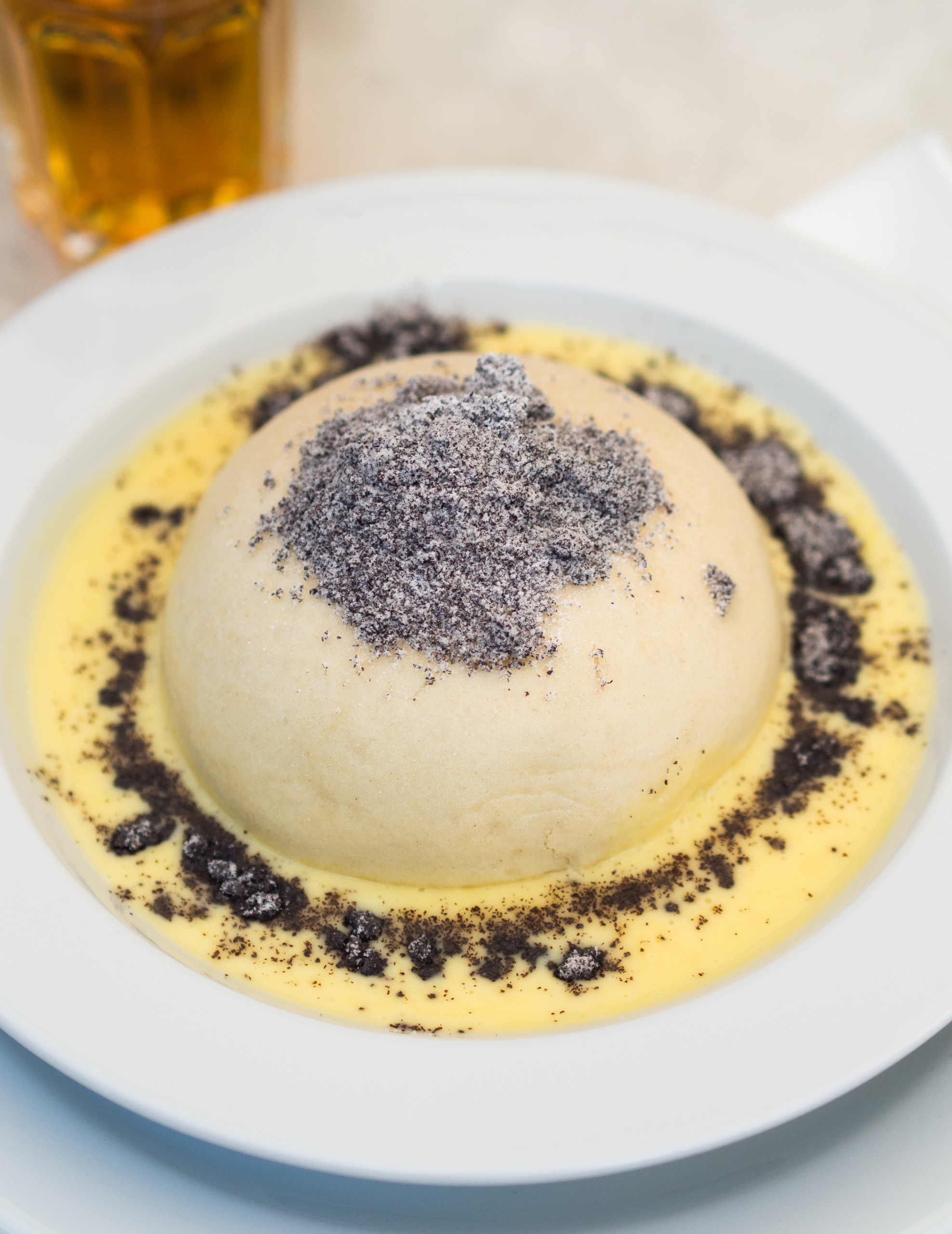 Germknödel with vanilla sauce in Sölden, Tyrol.